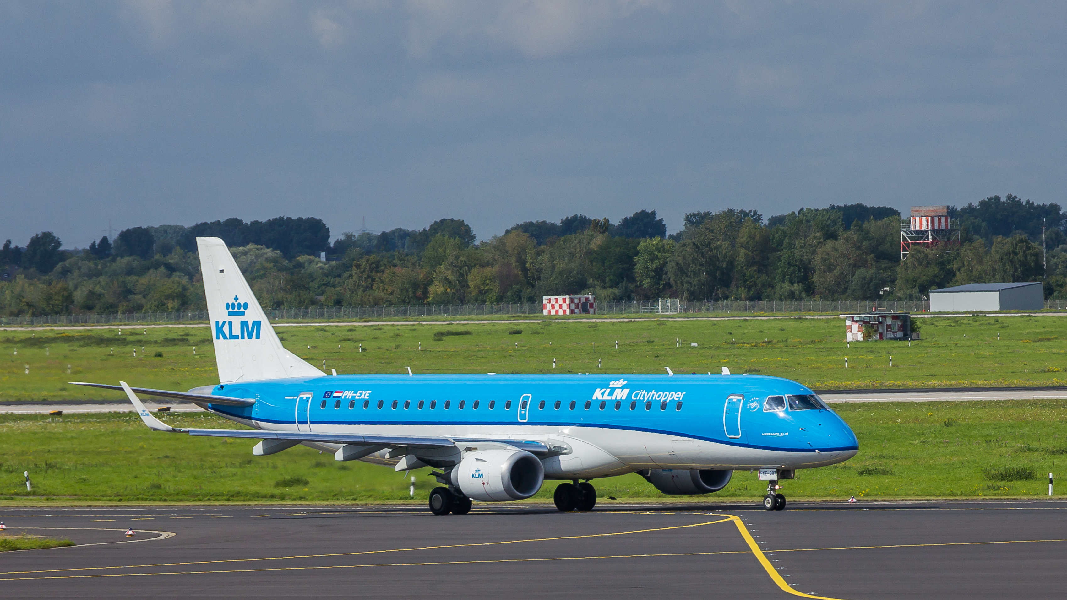 KLM Cityhopper - Embraer ERJ-190STD - PH-EXE - Düsseldorf Airport